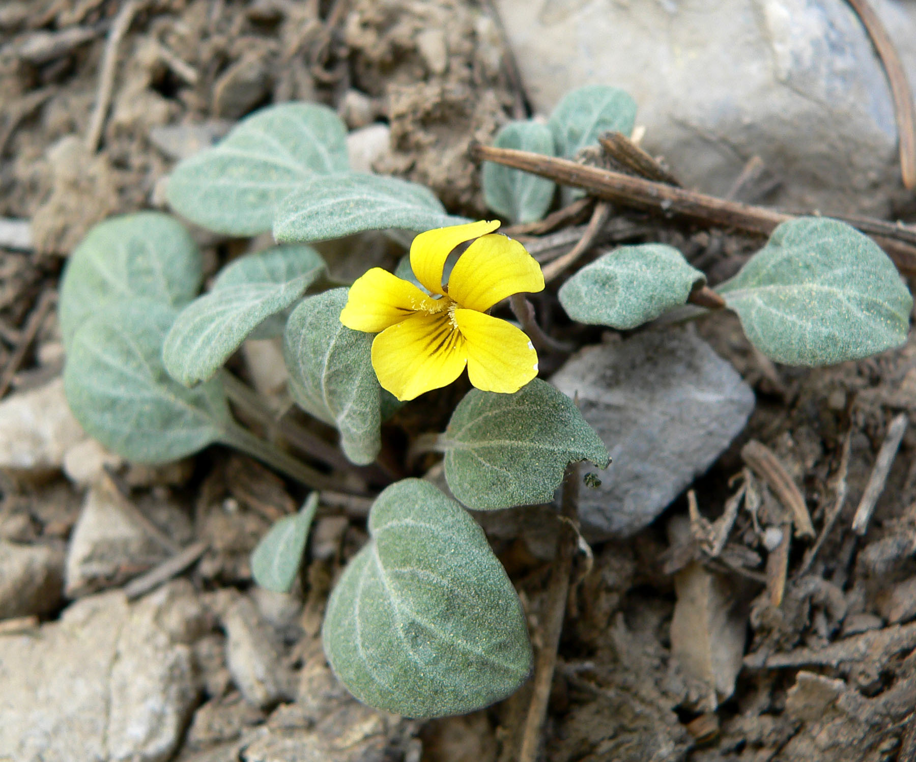 Viola charlestonensis alongside the Mary Jane Falls trail, Kyle Canyon, Spring Mountains, southern Nevada (elev. about 2500 m)